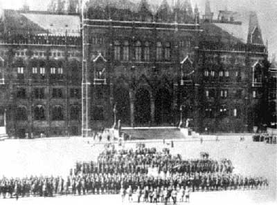 Romanian Army in front of the Hungarian Parliament, Budapest, 1919.